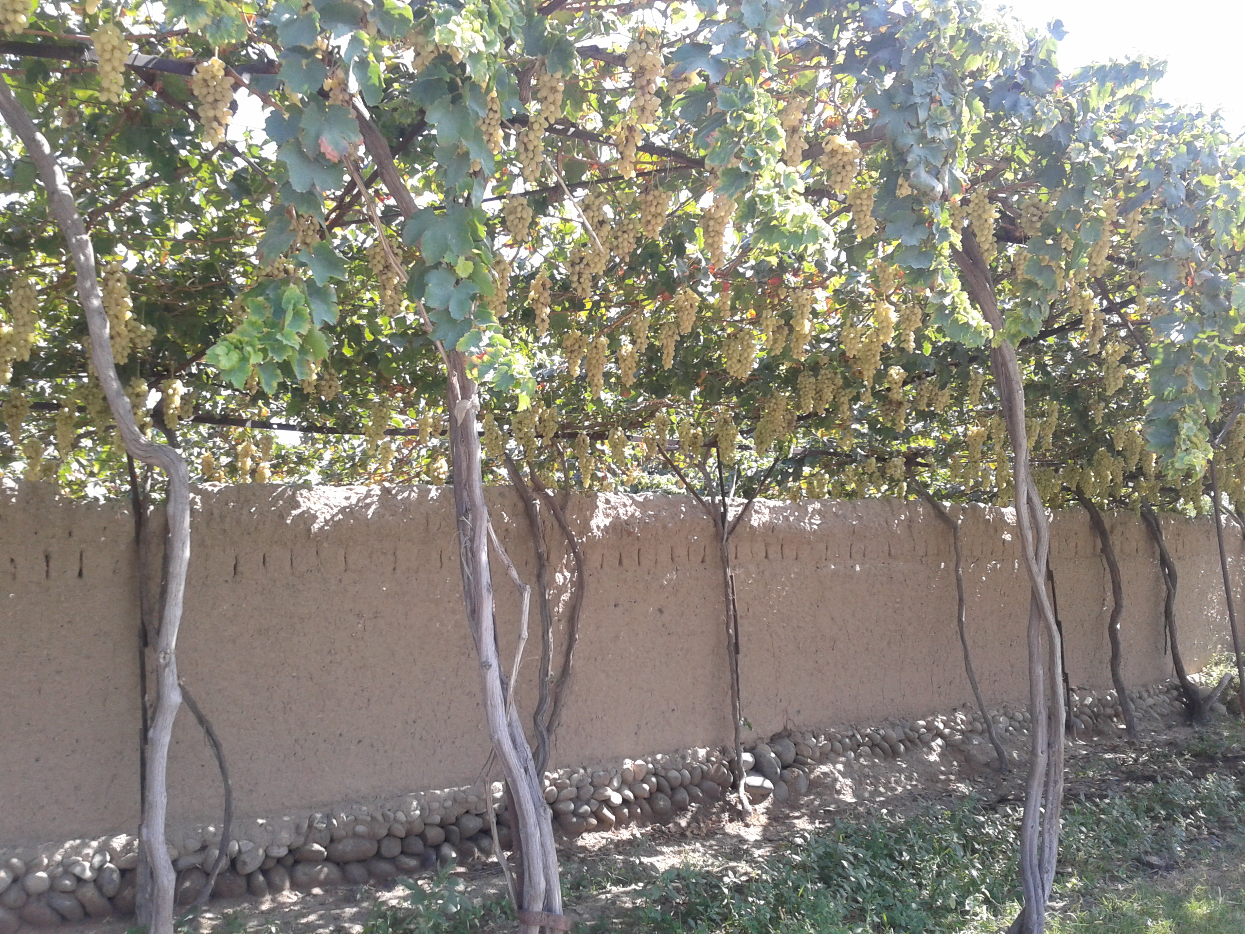 Vineyard in Vodil, Uzbekistan. September 2013